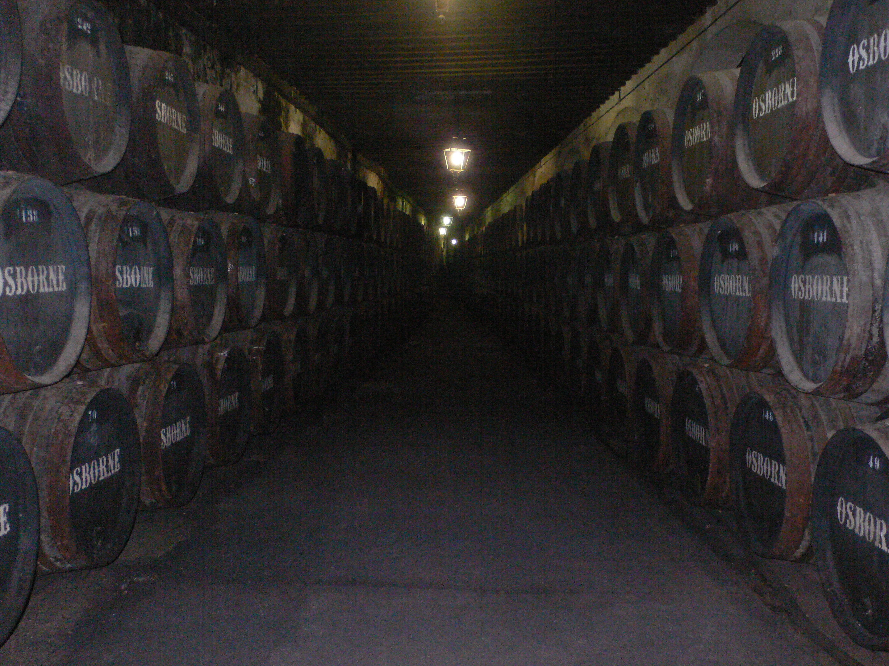 Sherry bodega